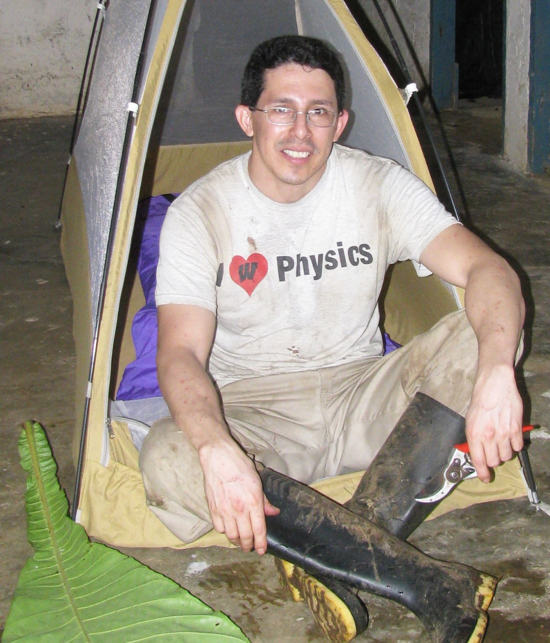 Xavier Cornejo en Hacienda Clementina, Los Rios, Ecuador, Abr 2010